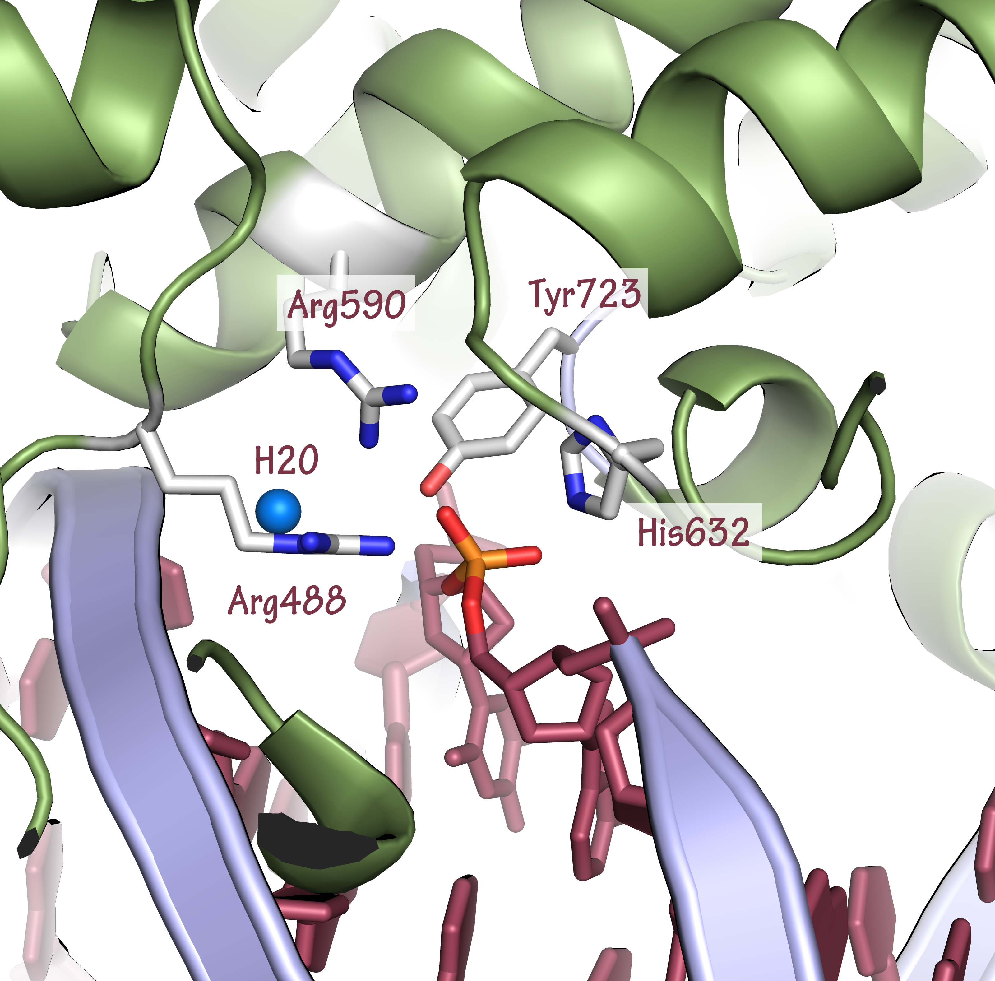 This is an image of the Topoisomerase IB active site (PDB 1A36). The structure was modified in order to include the natural, catalytic Tyrosine at position 723. The crystal structure contained a non-natural phenylalanine at this position.